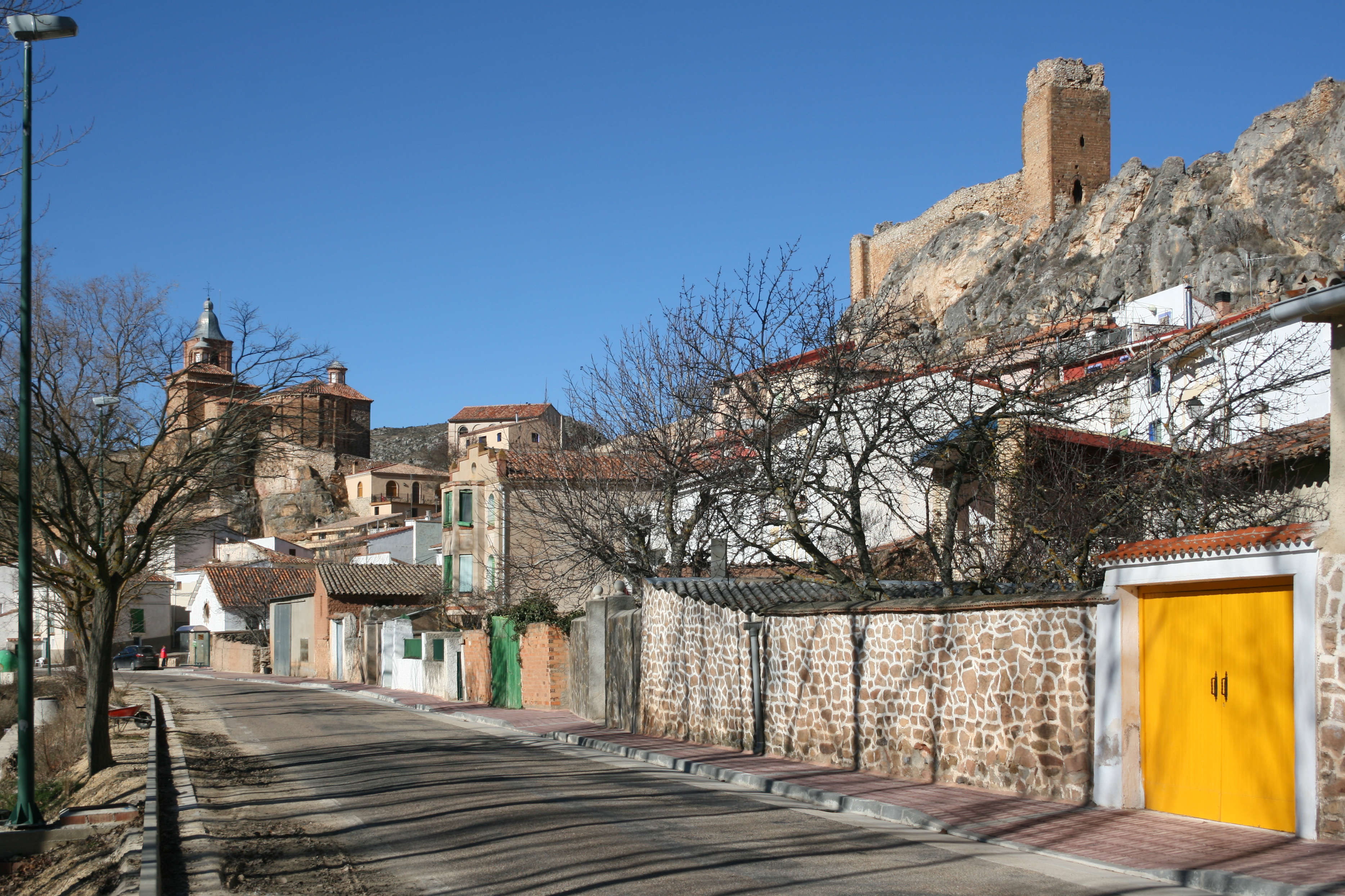 View of Bijuesca, Spain